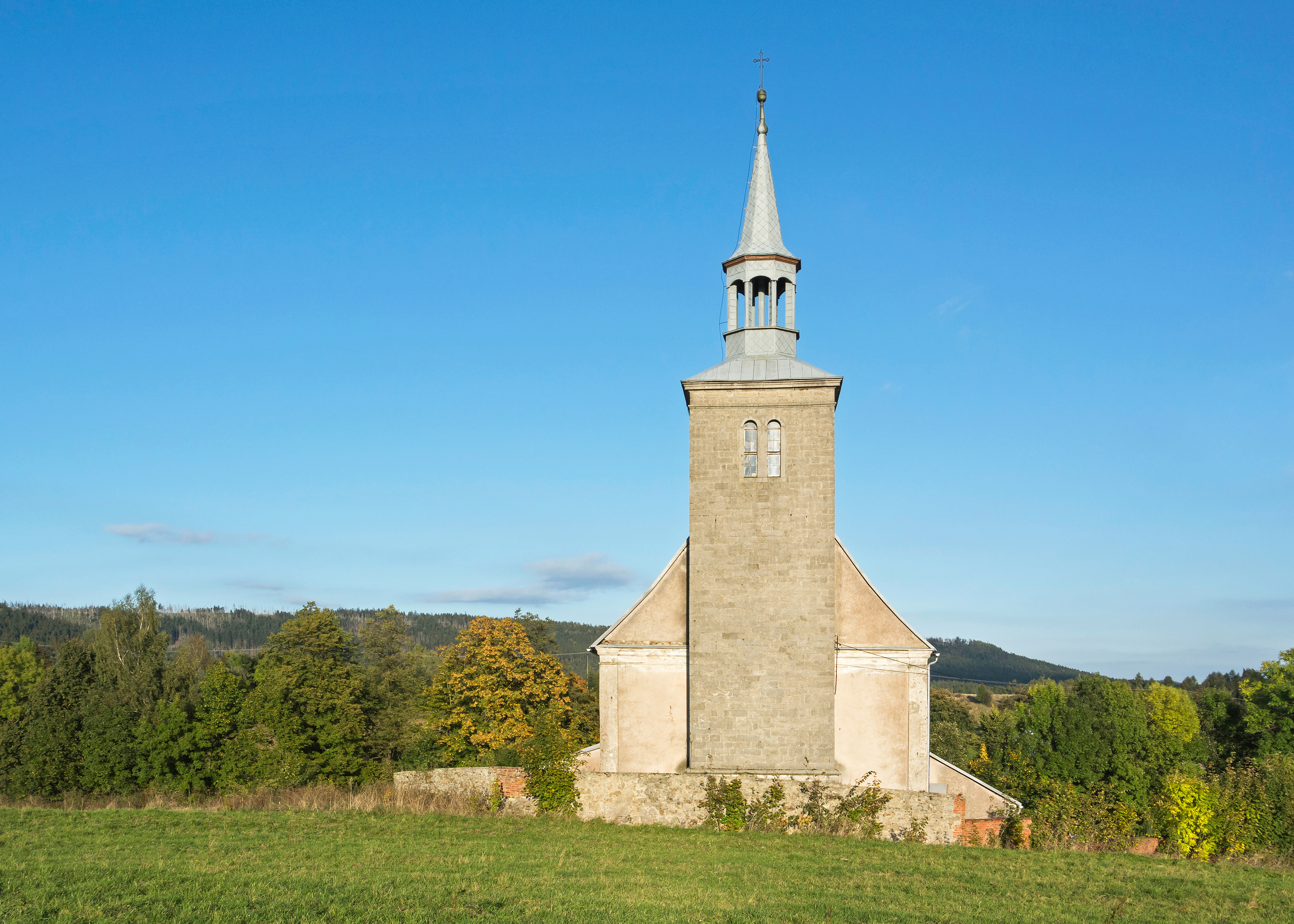 Church of St. Mary Magdalene in Łężyce